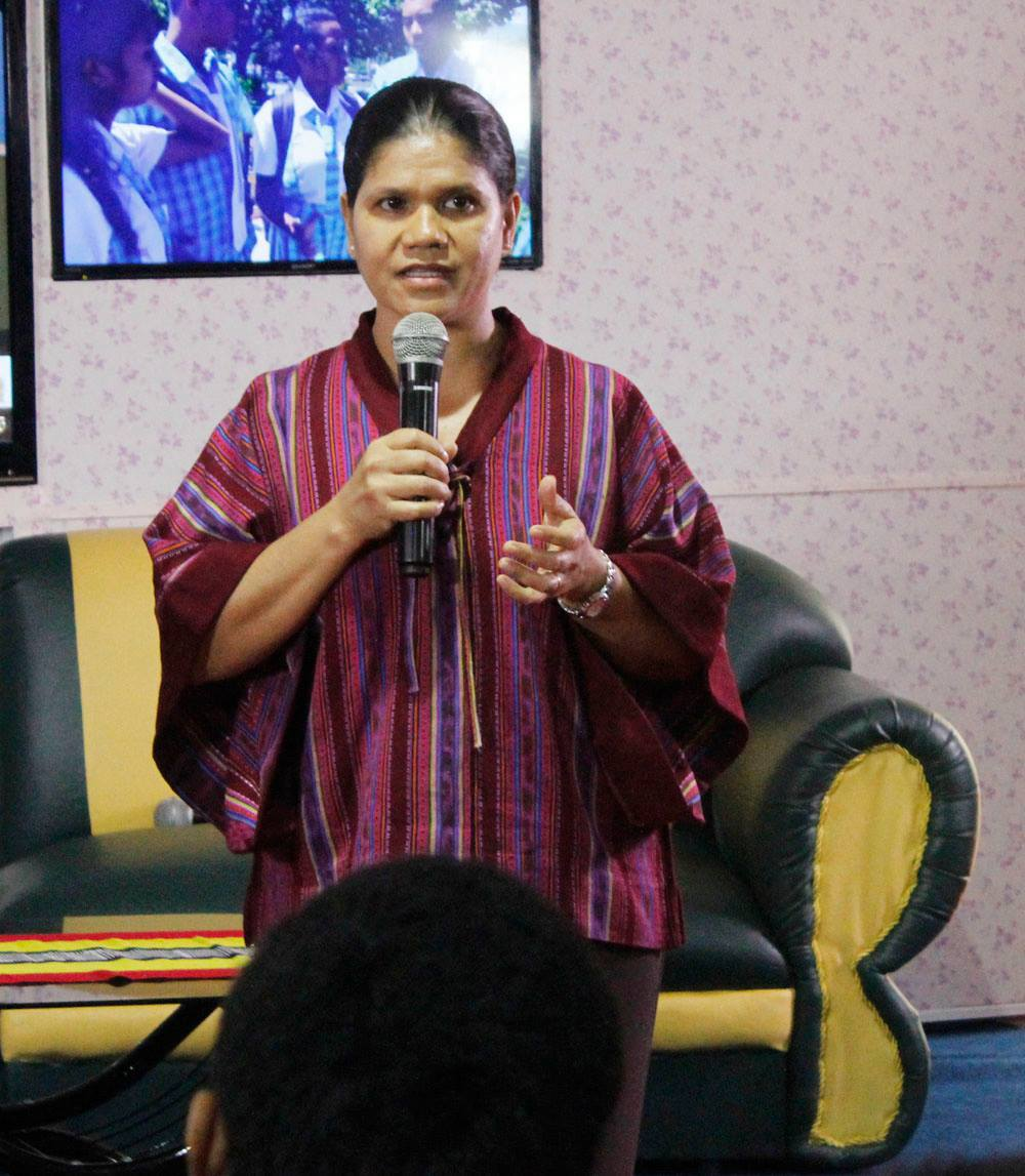 First lady Isabel da Costa Ferreira